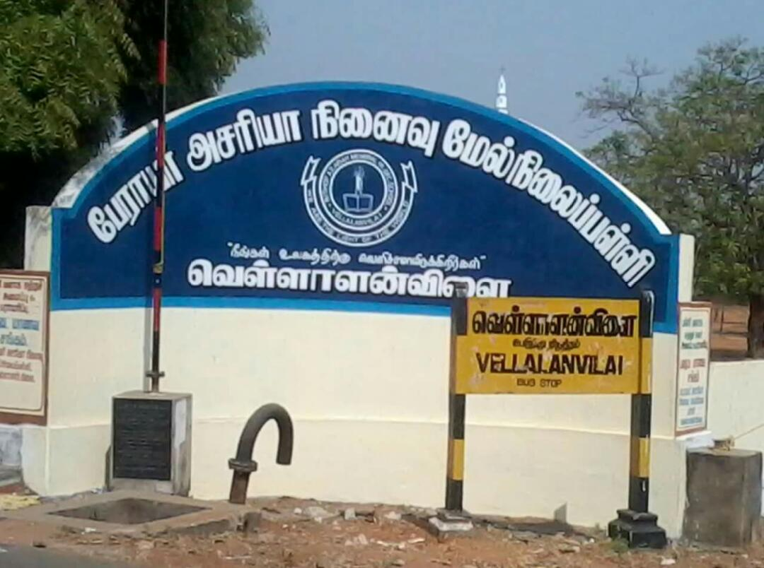 BAM Hr. Sec. School